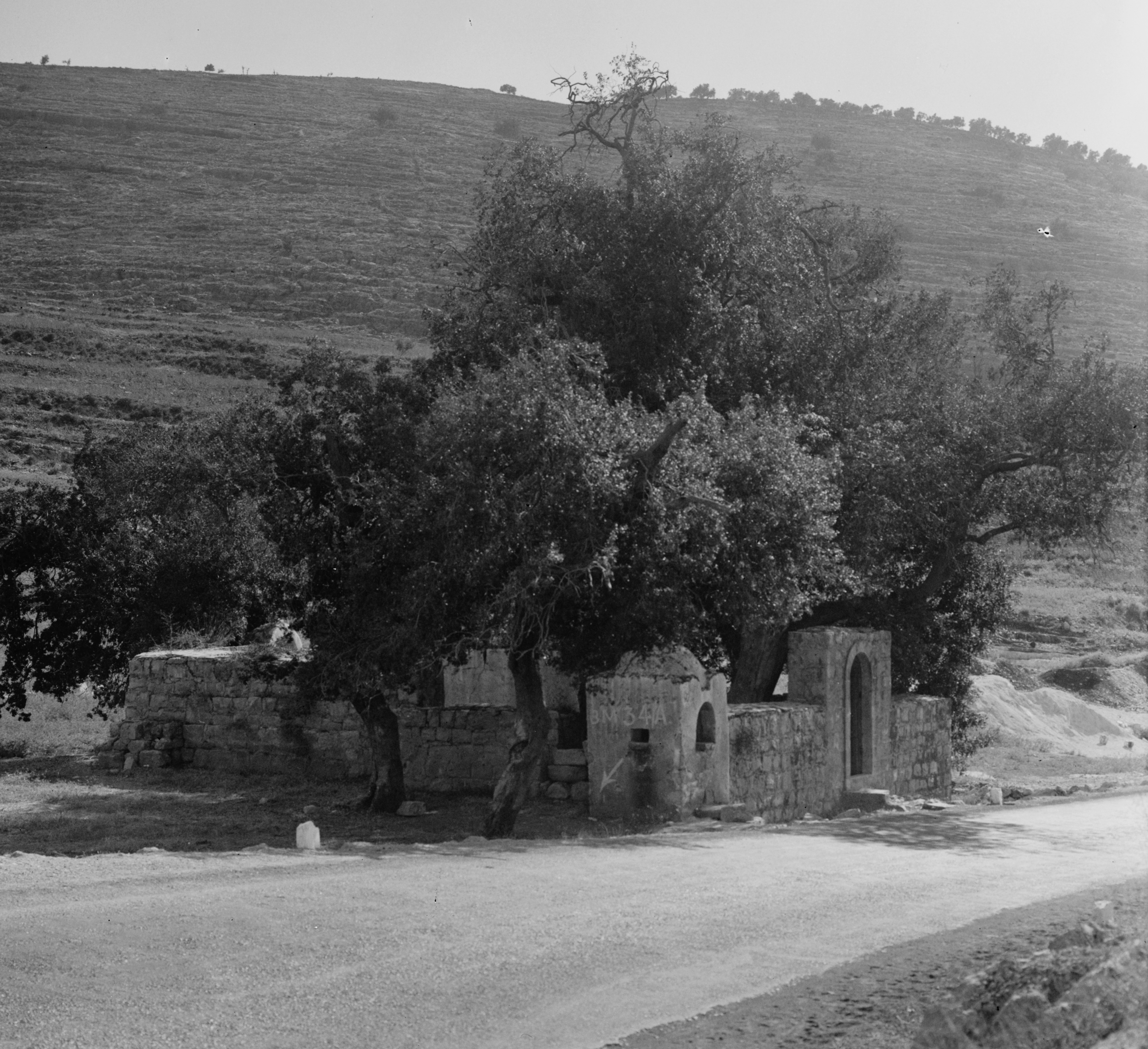 Imam Ali site at Bab al-Wad way (Arabic: باب الوادي; Hebrew: שער הגיא, Sha'ar HaGai, lit. Gate of the Valley) is a point on the Tel Aviv-Jerusalem highway in Israel.